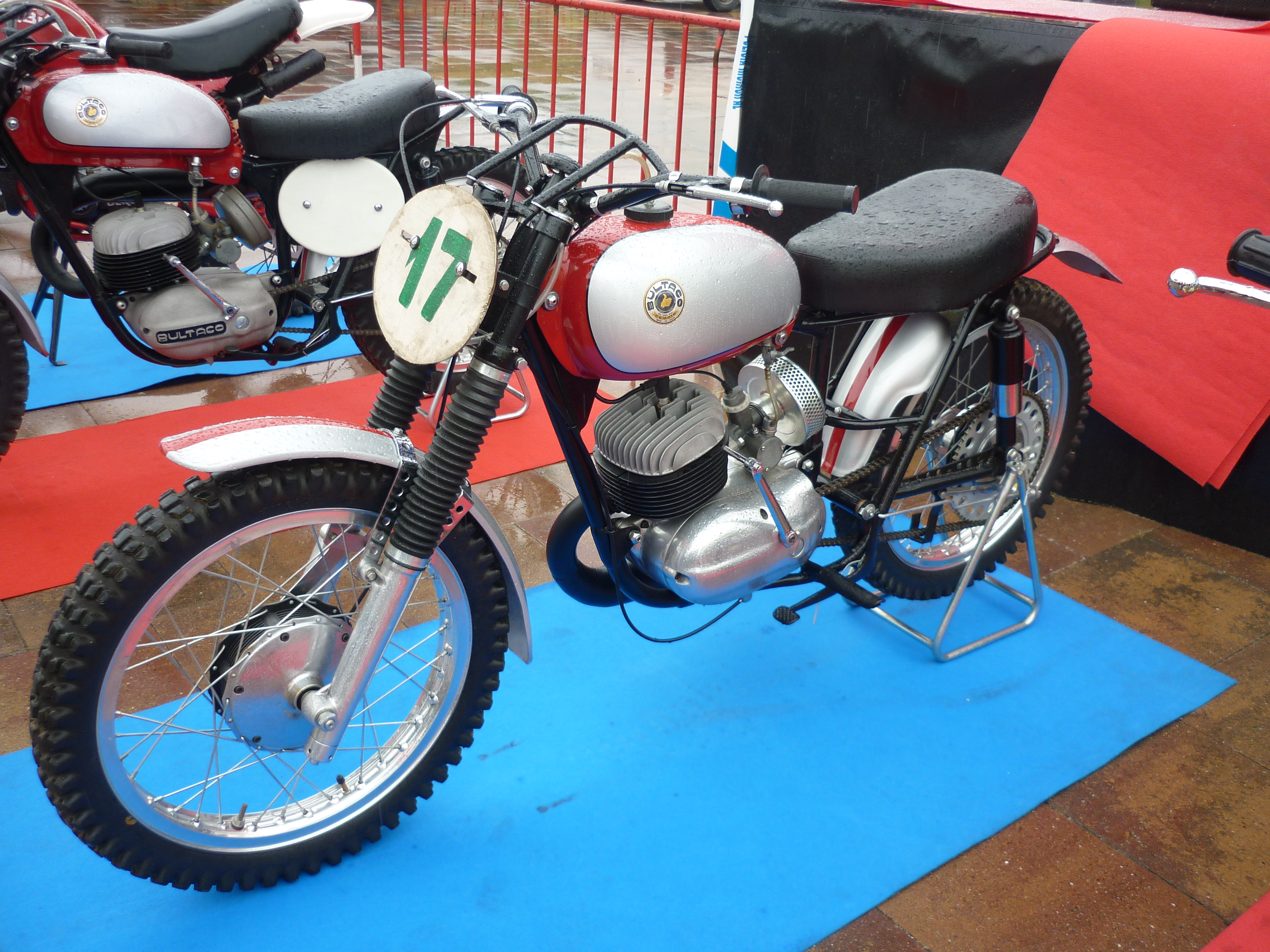 Estanis Soler's Bultaco Sherpa S 125. He rode it during 1962 and 1963 seasons.